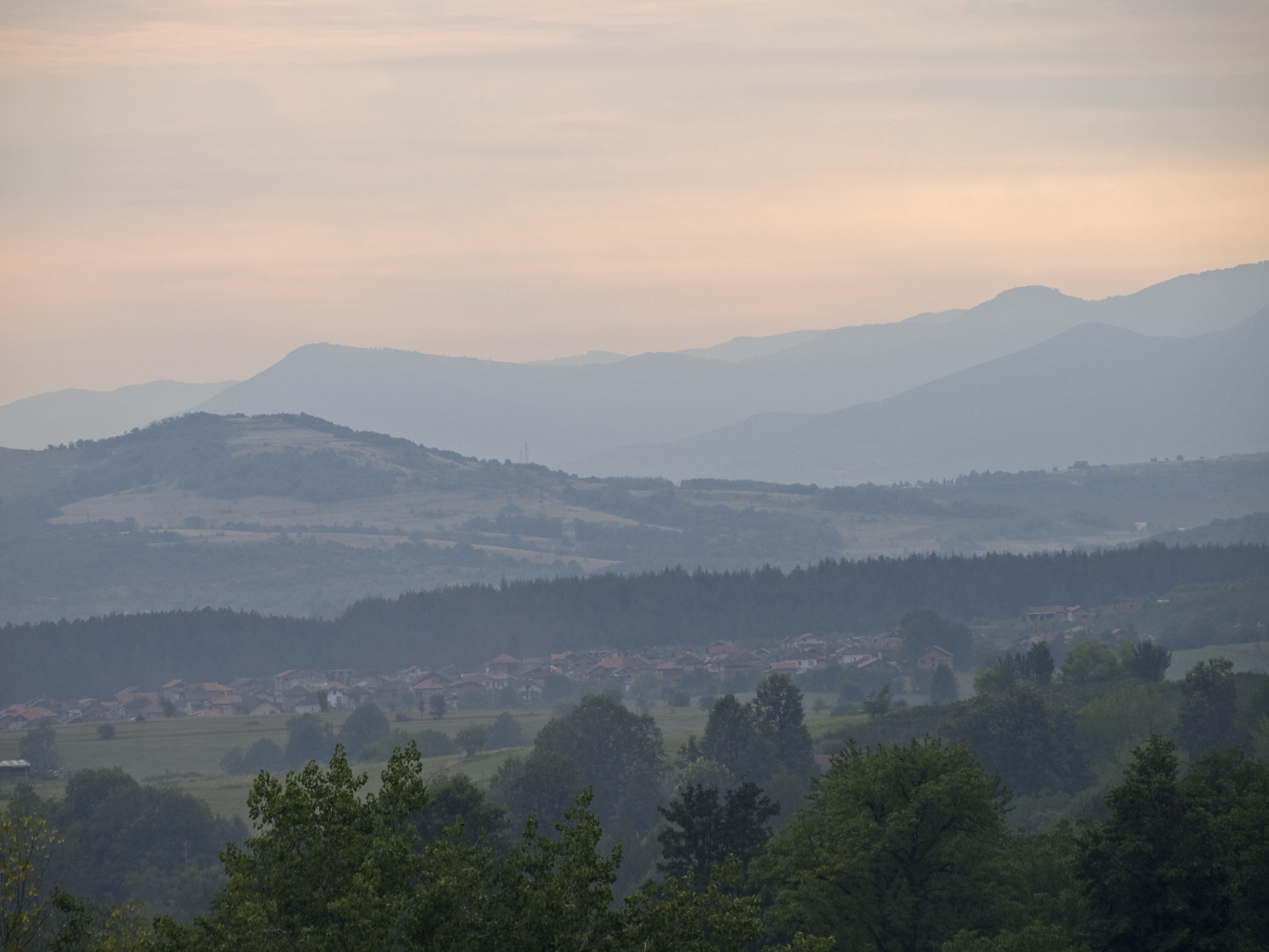 Stara Planina Mountains in Berkovitsa at sunrise